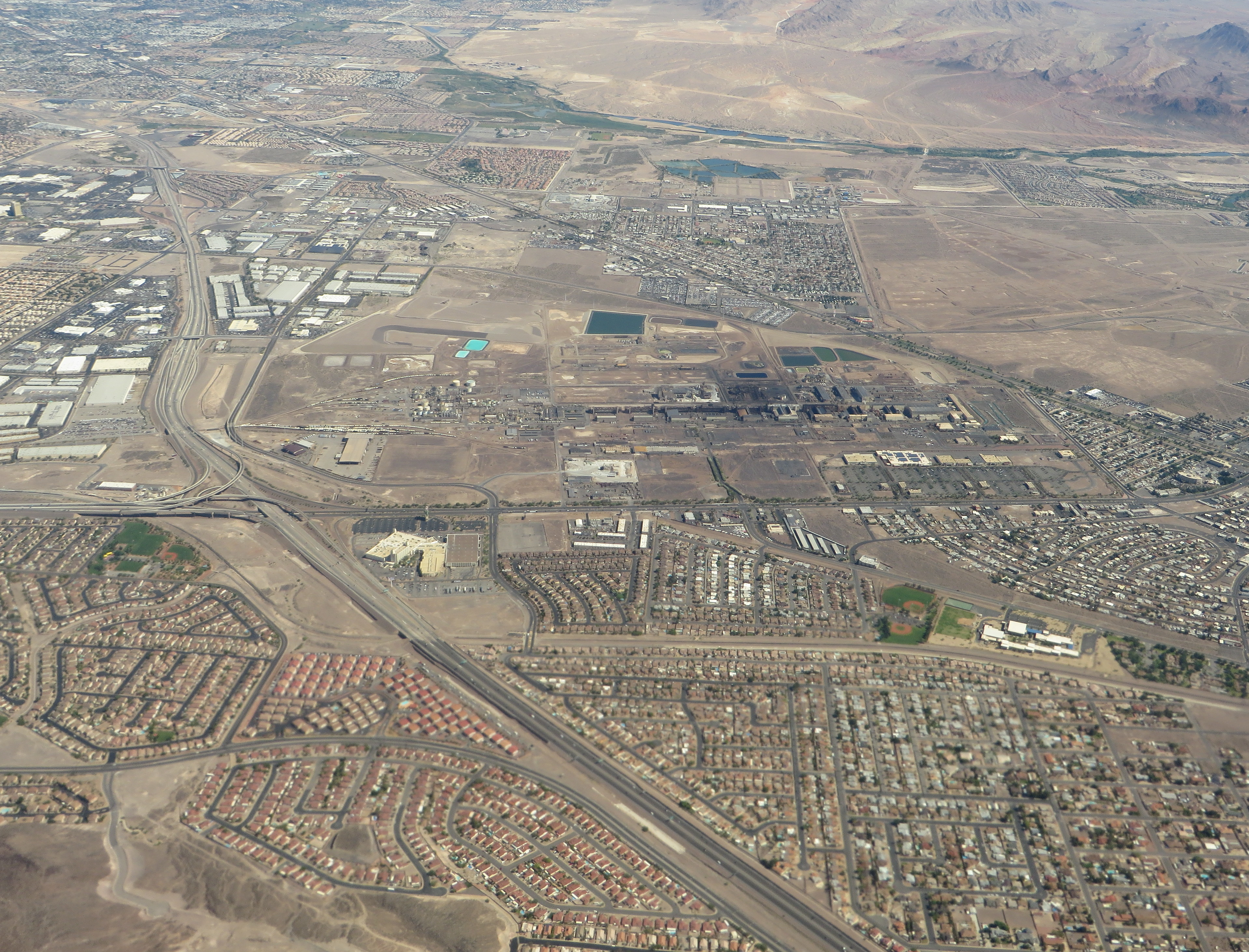 Henderson is a suburban city in Clark County, Nevada, United States, within the Las Vegas metropolitan area of the Mojave Desert. It is the second largest city in Nevada, after Las Vegas, with a population of 257,729 in the 2010 census. It occupies the southeast end of the Las Vegas Valley at an elevation of approximately 1,330 feet (410 m).